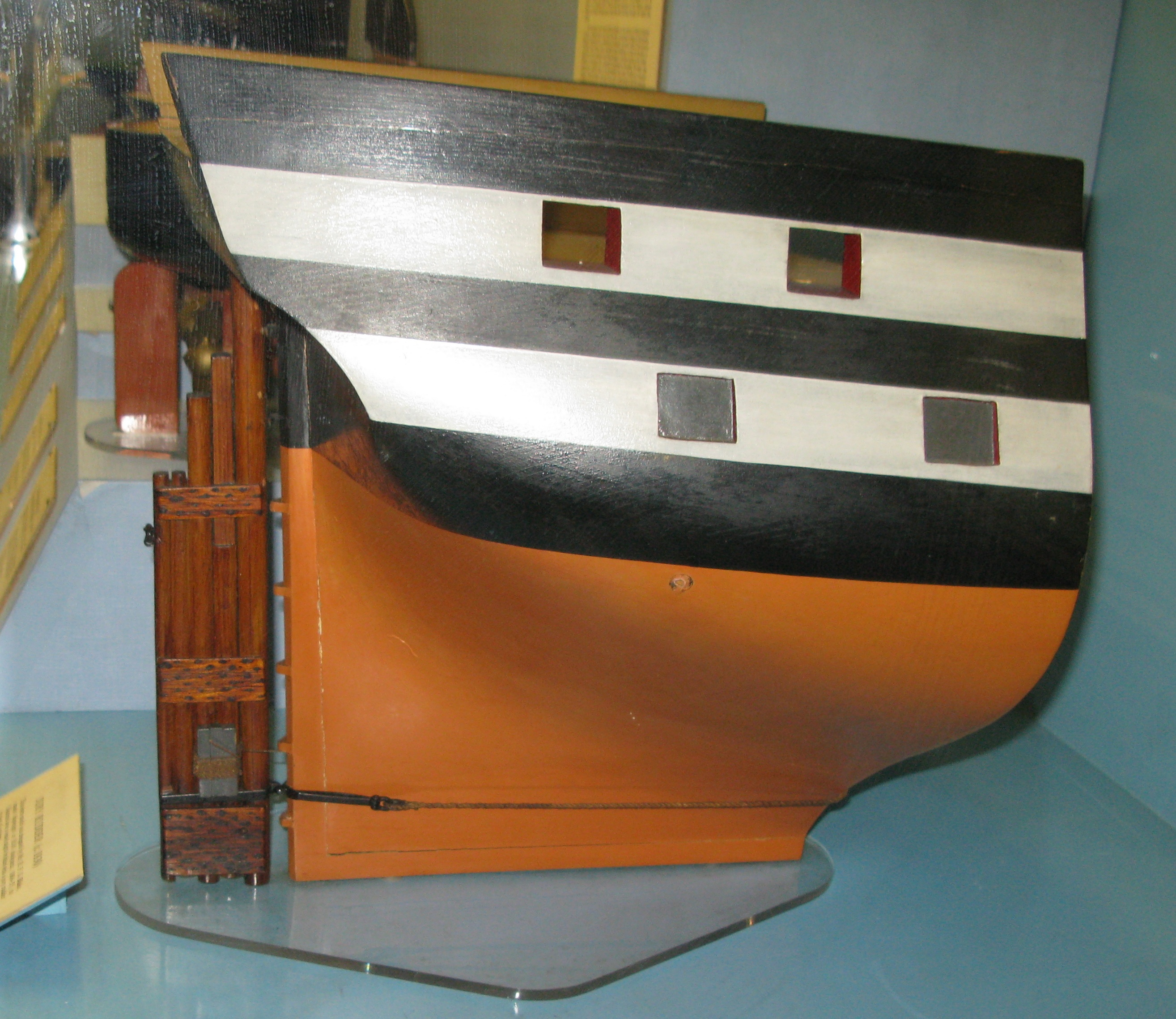 A model demonstrating a method by which a rudder can be jury rigged.